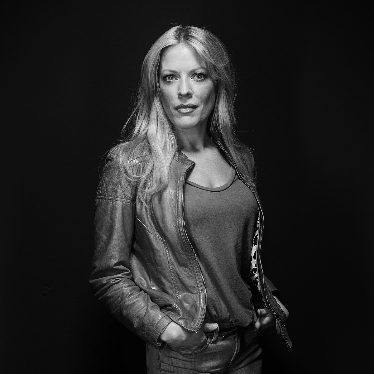 Sherie Rene Scott